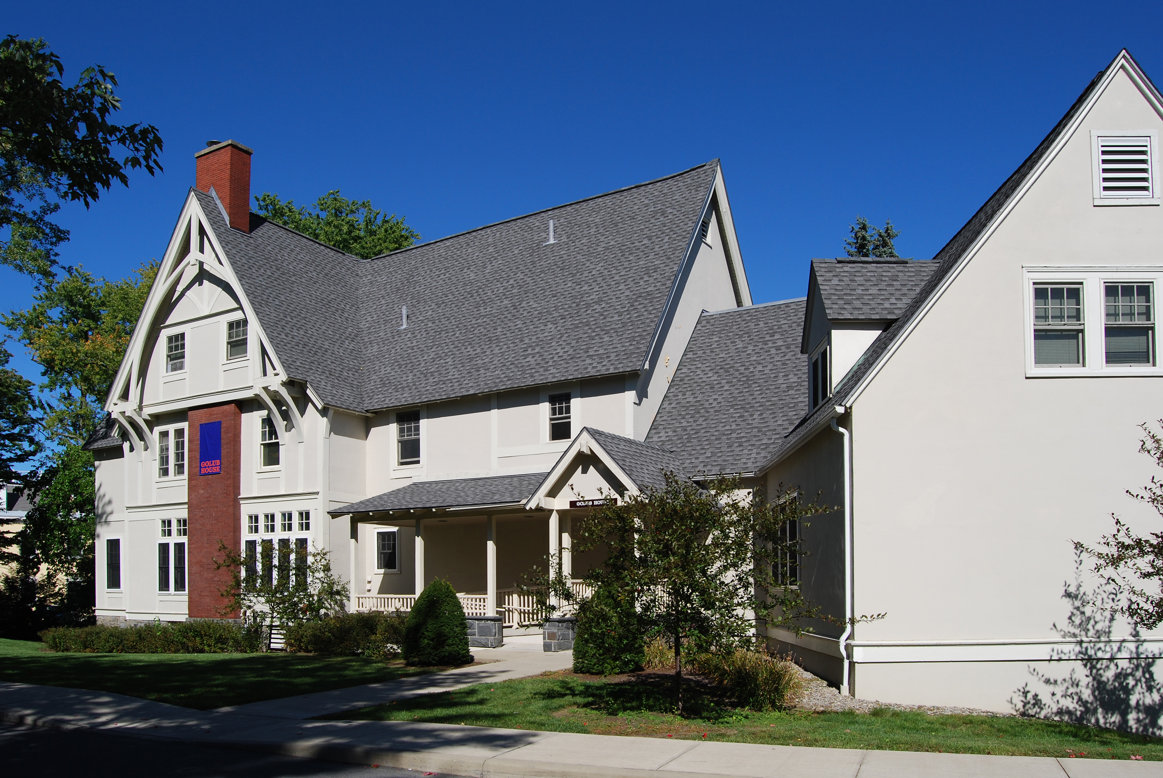 Golub House, a Minerva House, on the campus of Union College in Schenectady, New York, United States